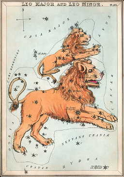 Leo as depicted in Urania’s Mirror, a set of constellation cards published in London c. 1825.